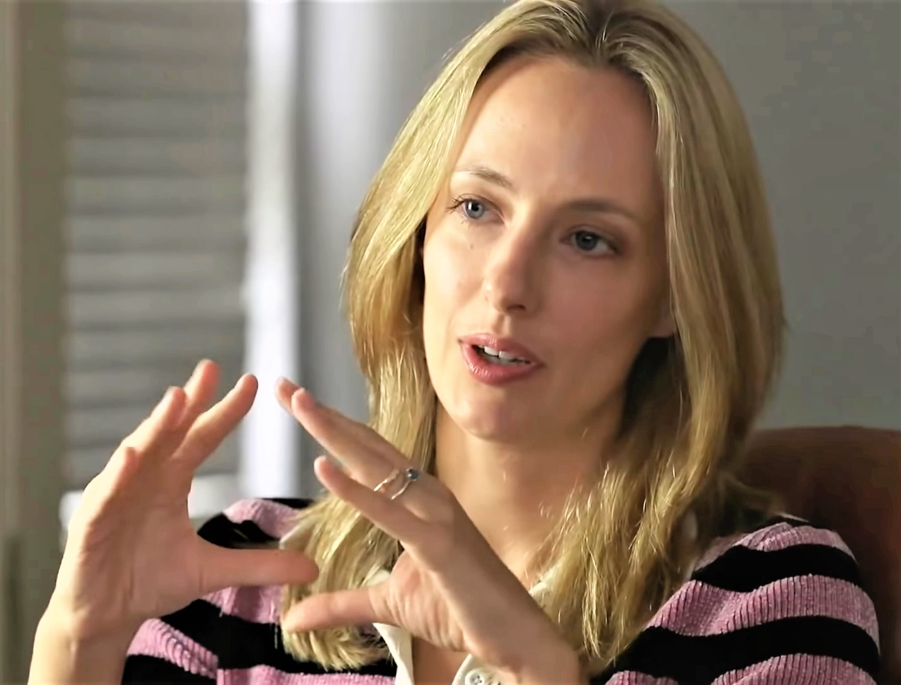 Claire Lehmann on Rebel Wisdom in 2019.